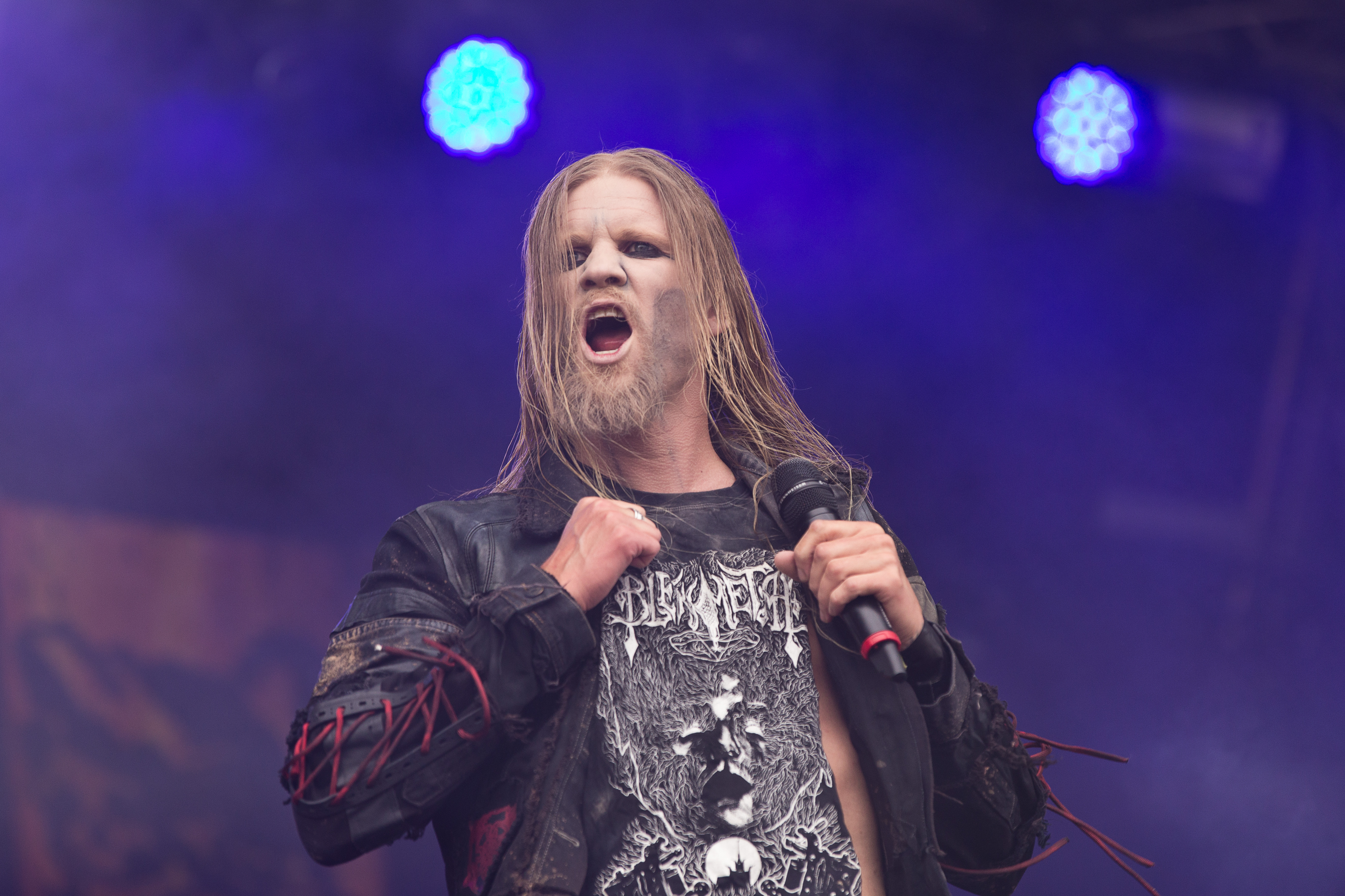 The Norwegian black metal band Kampfar at the Rockharz Open Air 2016 in Ballenstedt/Germany.